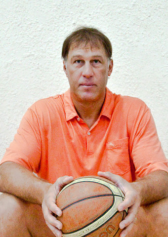 Sarunas Marciulionis during his trip to Armenia